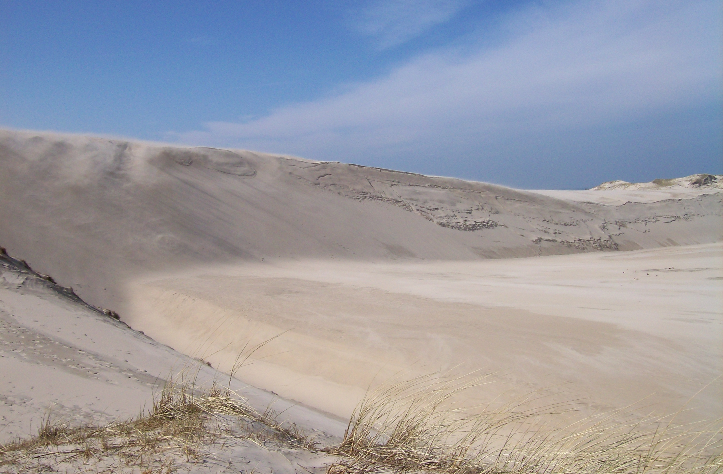 Dune (Łącka Góra), Slowinski National Park